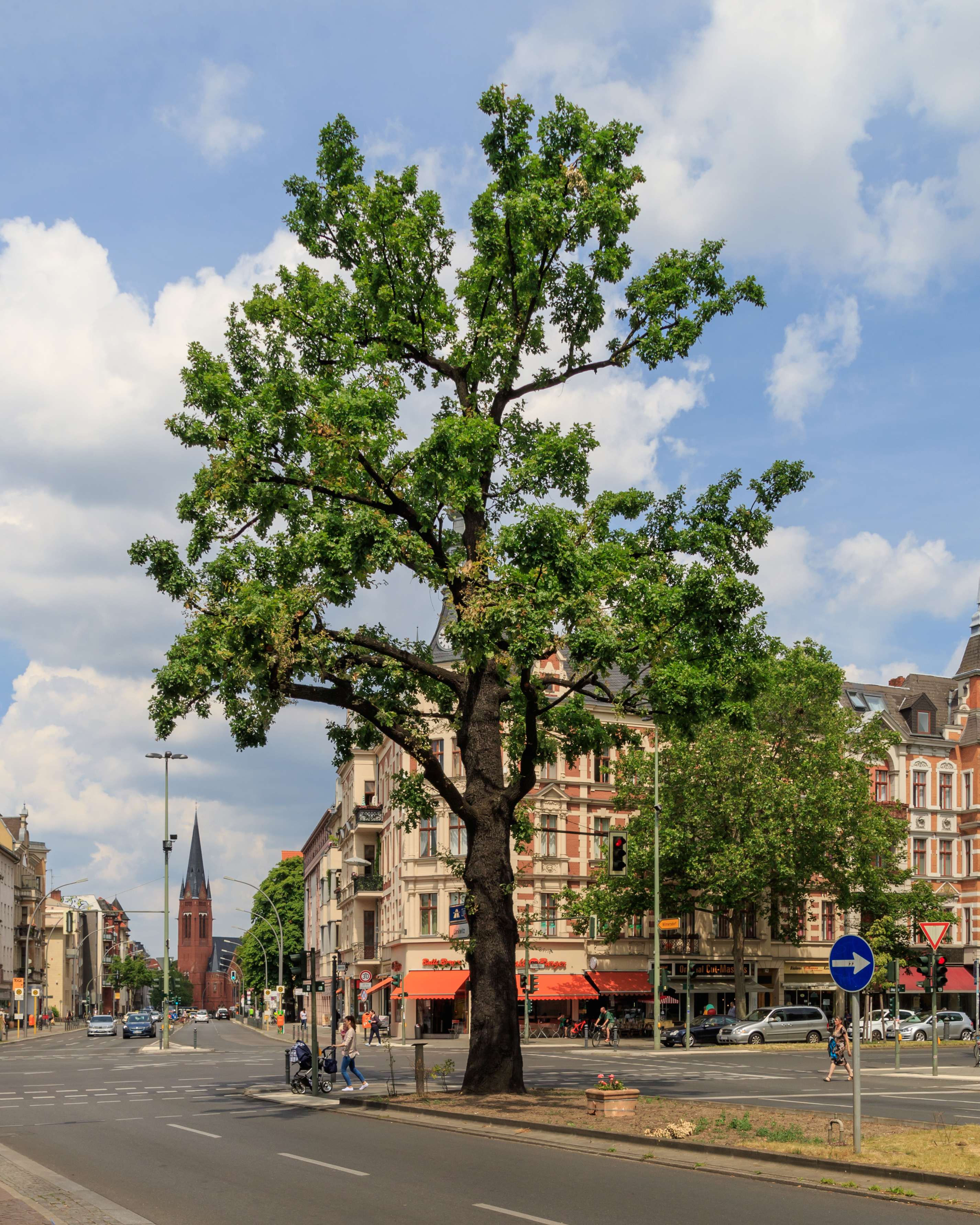 Emperor's Oak in Berlin (Germany)